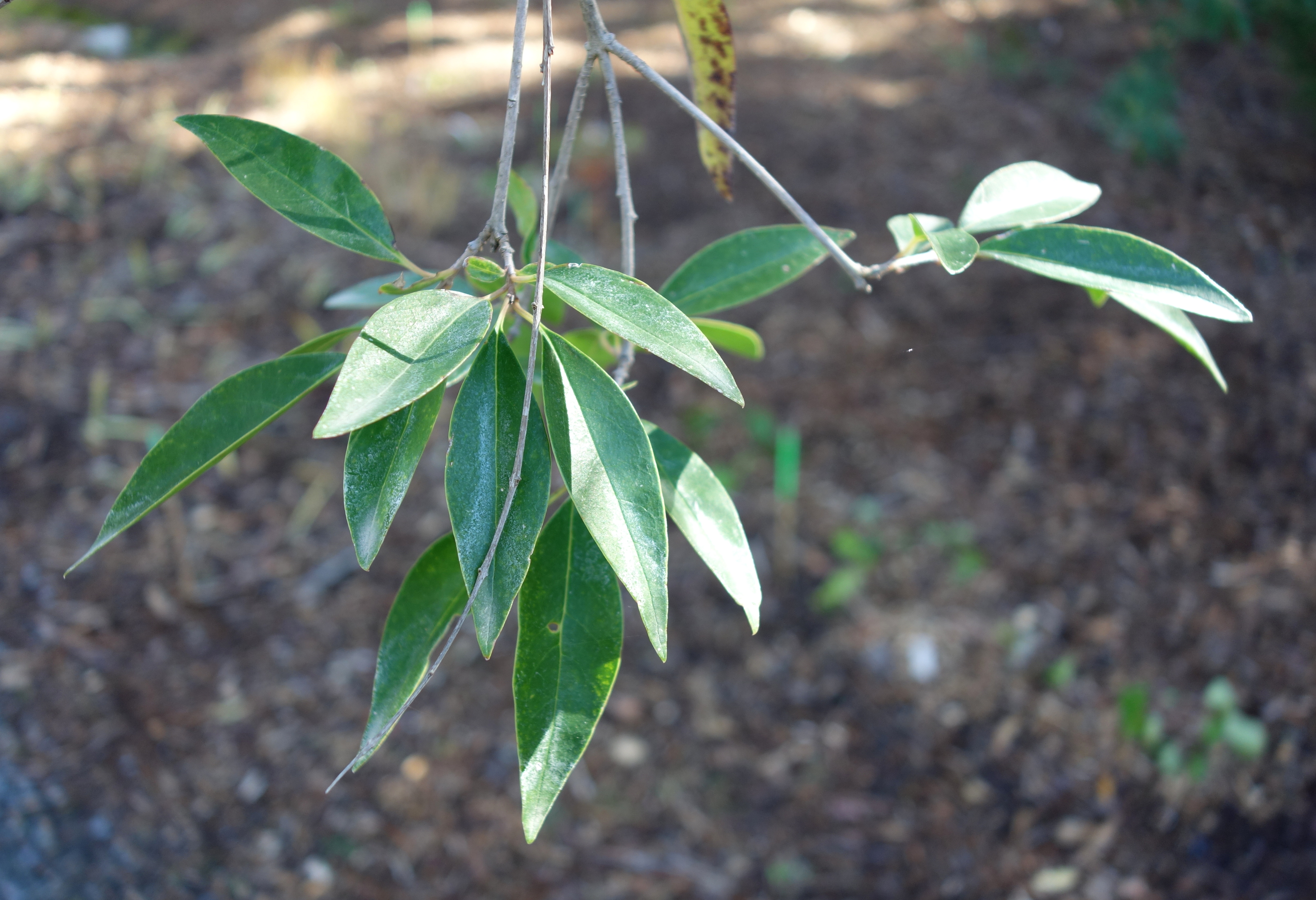 Botanical specimen in Quarryhill Botanical Garden, Glen Ellen, California, USA.